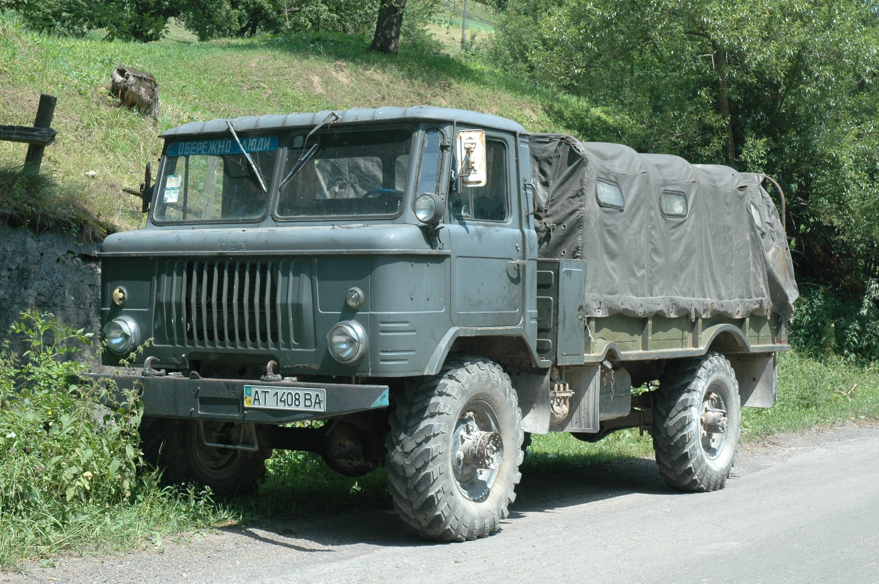 GAZ-66 truck in Torun, Ukraine